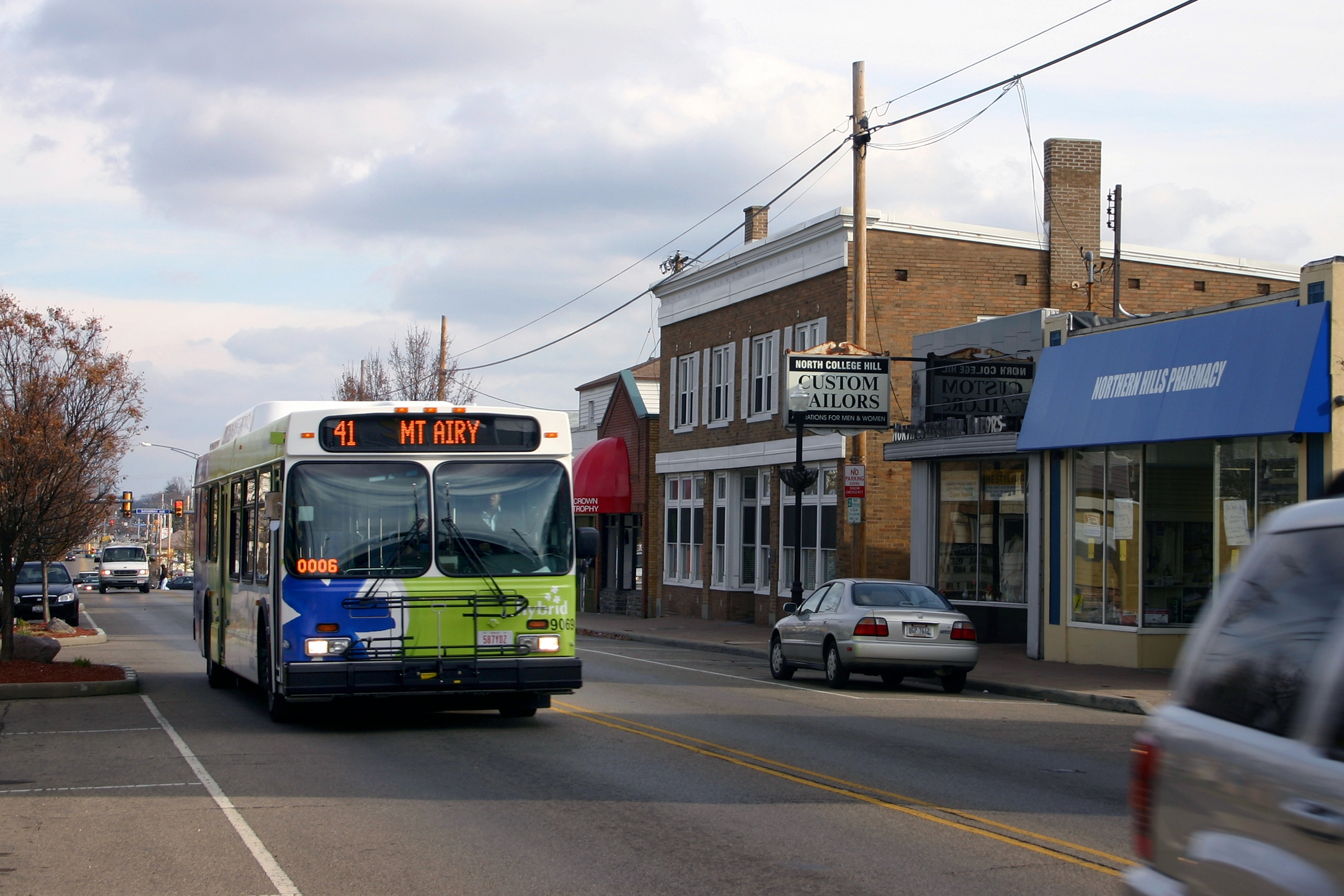 A Cincinnati Metro Route 41 bus heads West on Galbraith Road in North College Hill, Ohio in 2010.